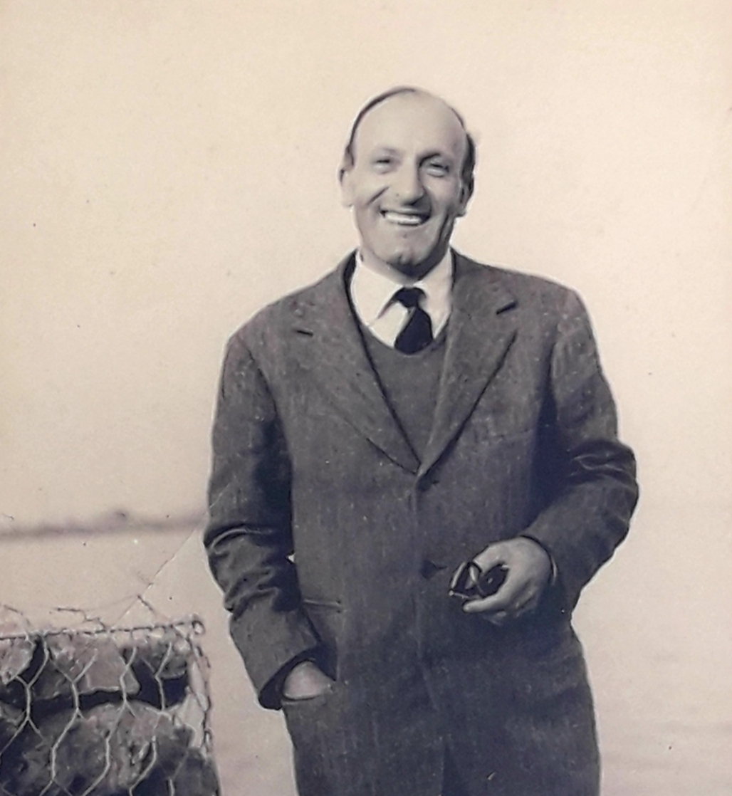 Italian intellectual and art collector Roberto Pagnani.